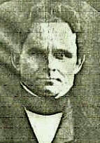 More than 100 year old photo